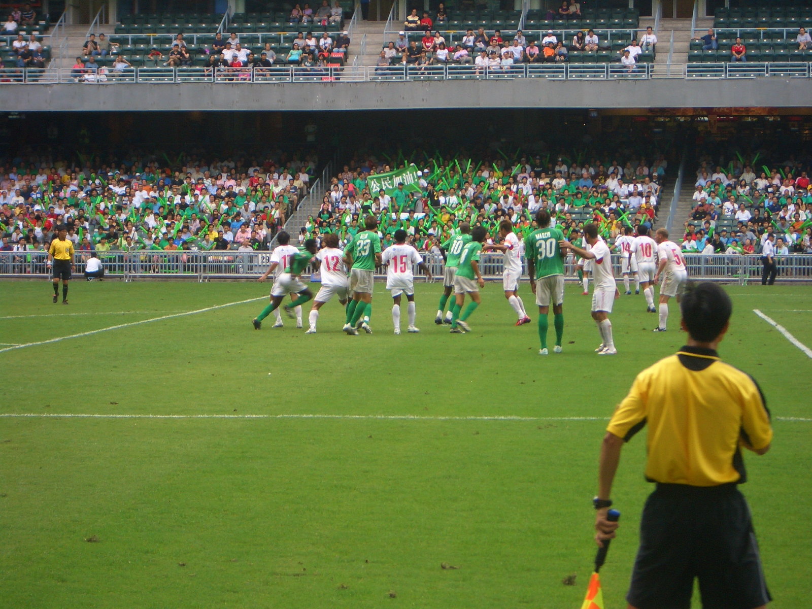 2007-08 Hong Kong FA Cup Final, Cizten AA got a corner kick chance